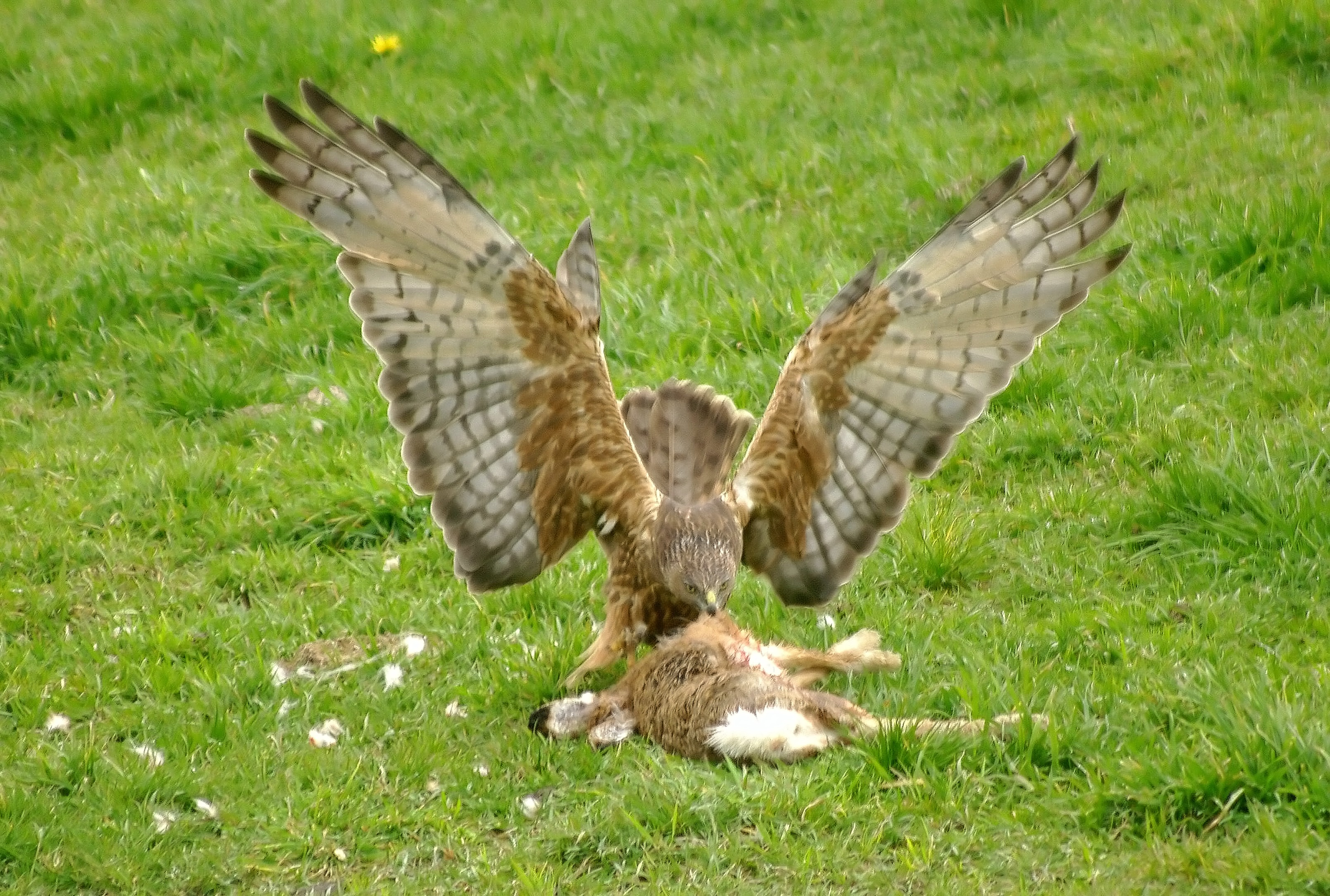 A Swamp Harrier Circus approximans in New Zealand. It is eating a dead hare.